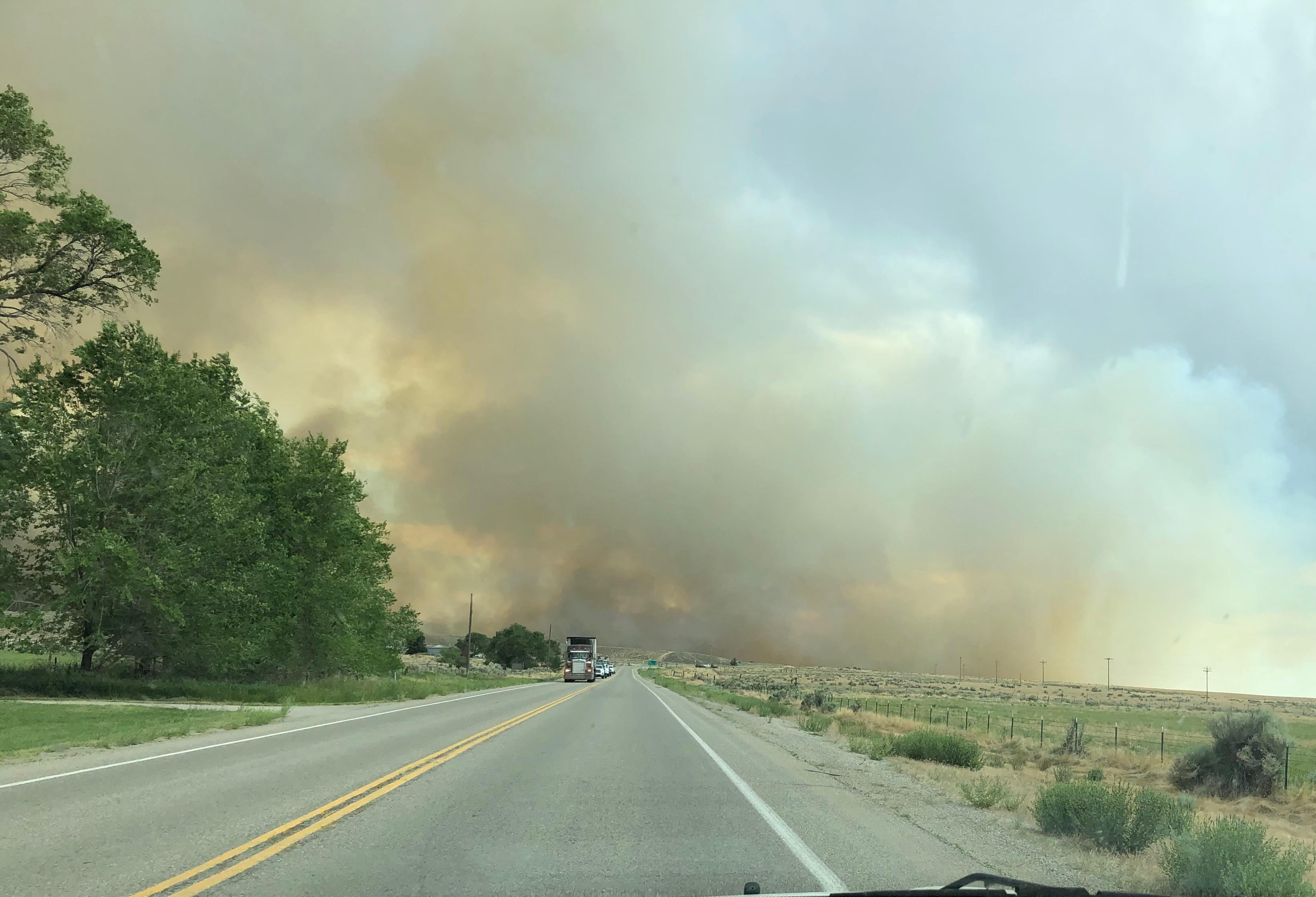 Smoke from the Brown Fire along State Route 318.